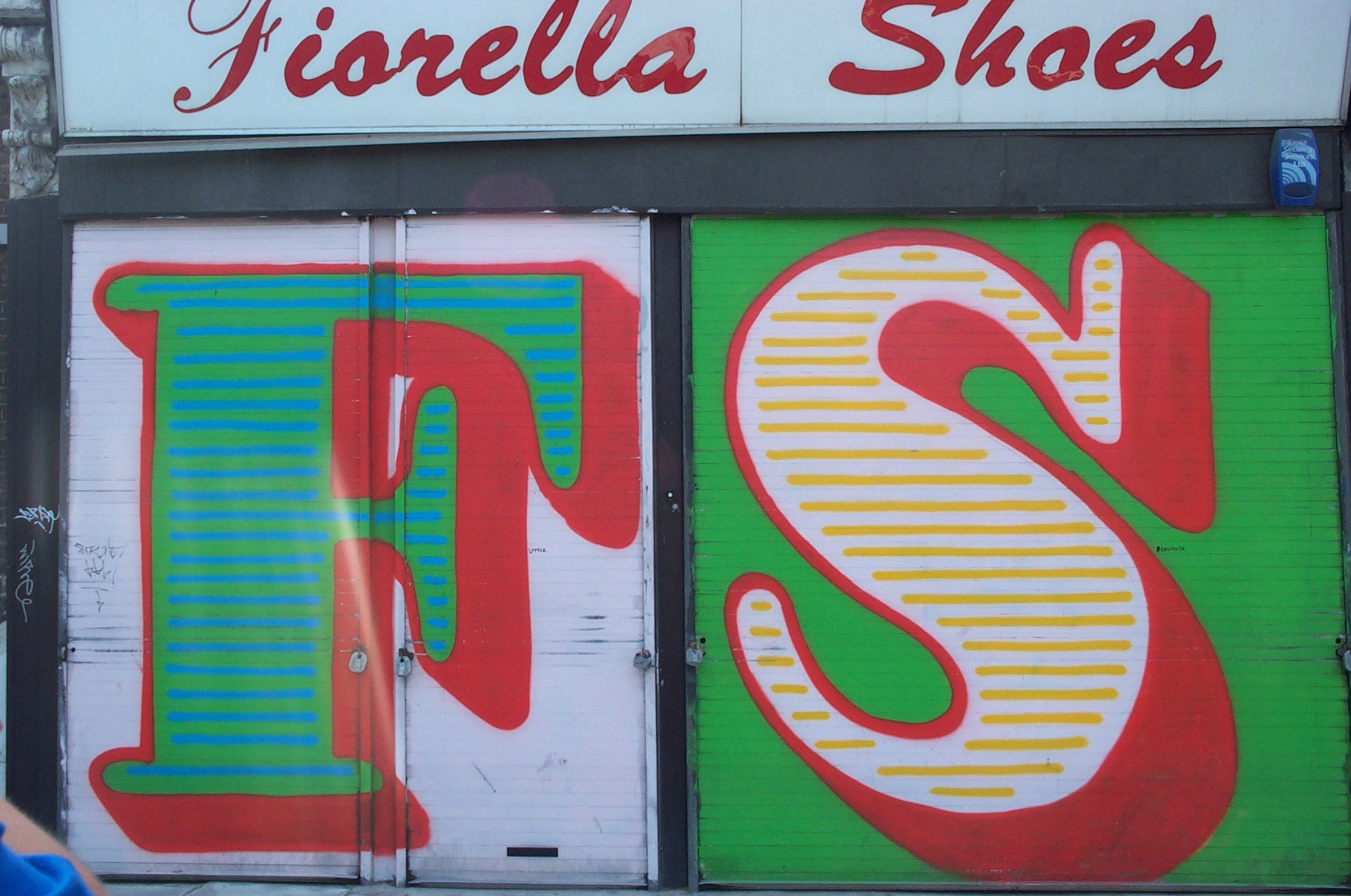 shutter lettering on Hackney Road, London